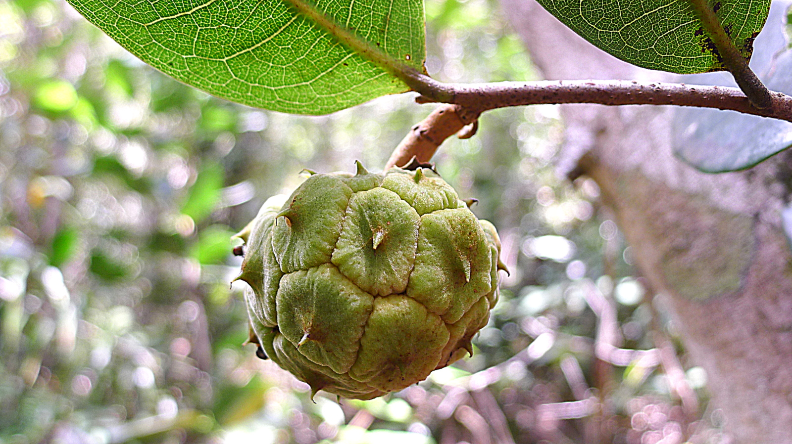 Duguetia moricandiana Mart., Annonaceae, Atlantic forest, northeastern Bahia, Brazil Tree 12 m. Popovkin & Mendes 1239 (HUEFS).